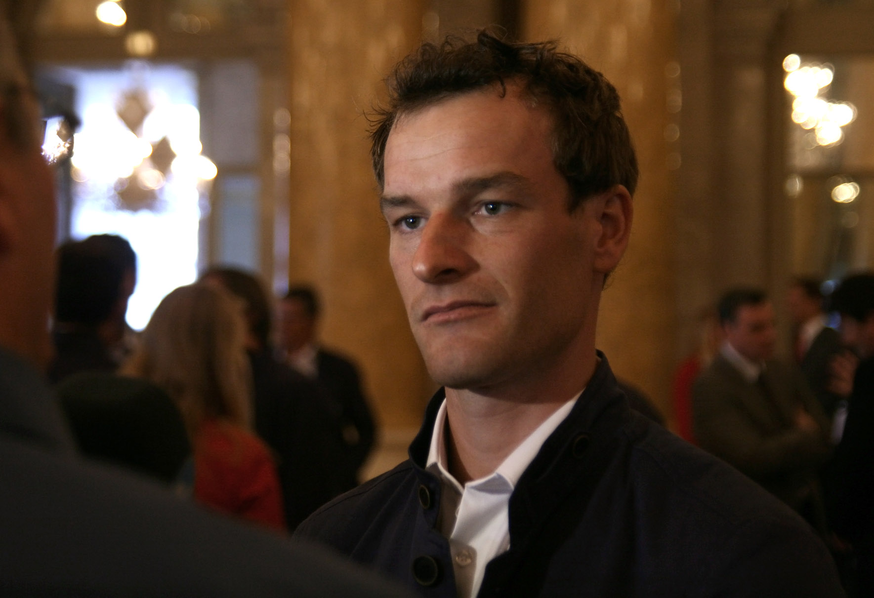 Nico Delle-Karth at the official farewell of the Austrian team for the 2012 Summer Olympics in London at the ceremonial hall of Hofburg Palace in Vienna.